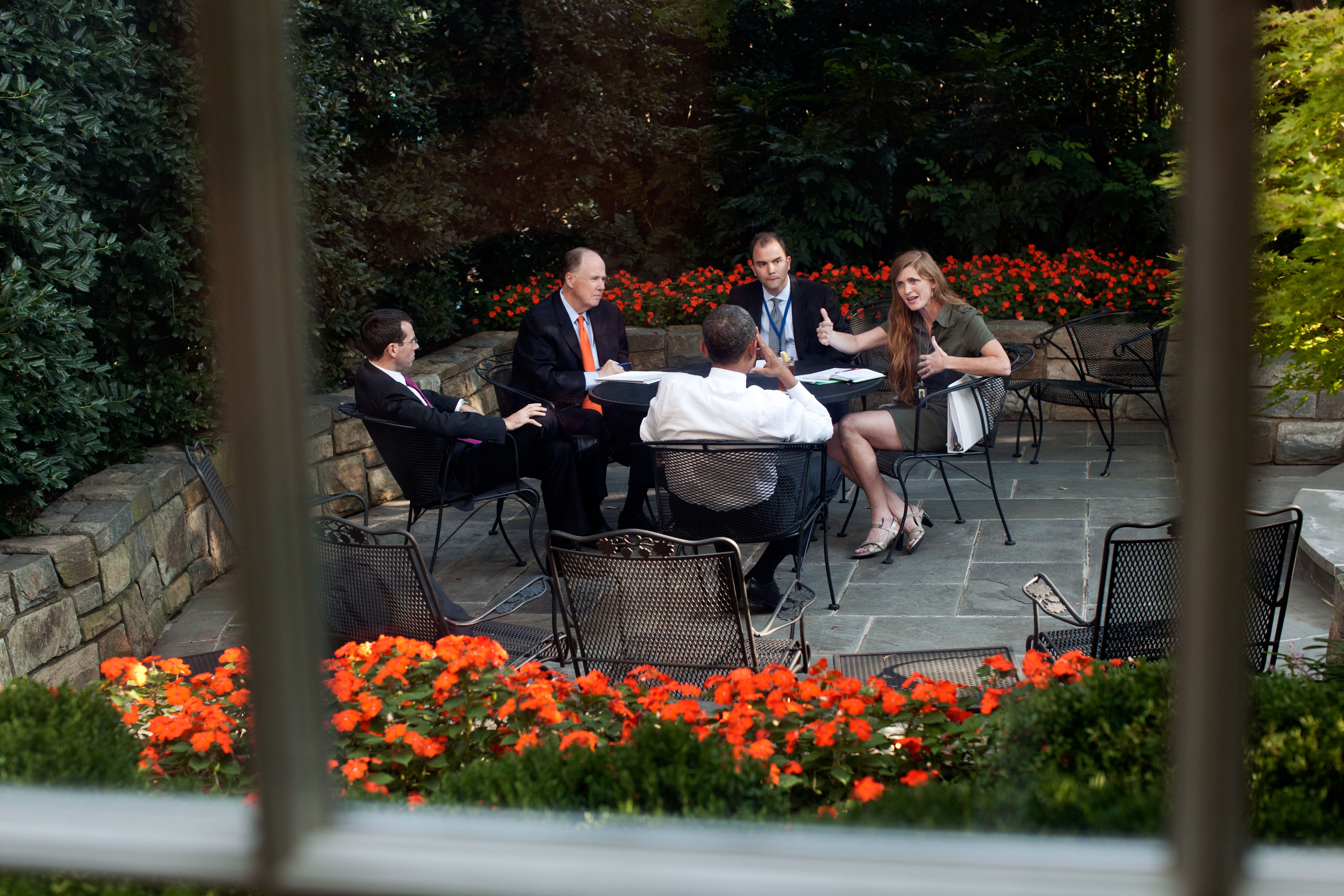 President Barack Obama meets with advisors on the patio outside the Oval Office, Sept. 14, 2011. From left are: Senior Advisor David Plouffe; National Security Advisor Tom Donilon; Ben Rhodes, Deputy National Security Advisor for Strategic Communications; and Samantha Power, Senior Director for Multilateral Affairs and Human Rights. (Official White House Photo by Pete Souza)